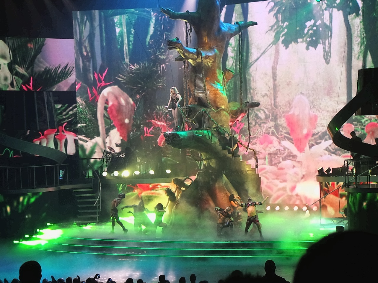 Britney Spears Las Vegas residency show